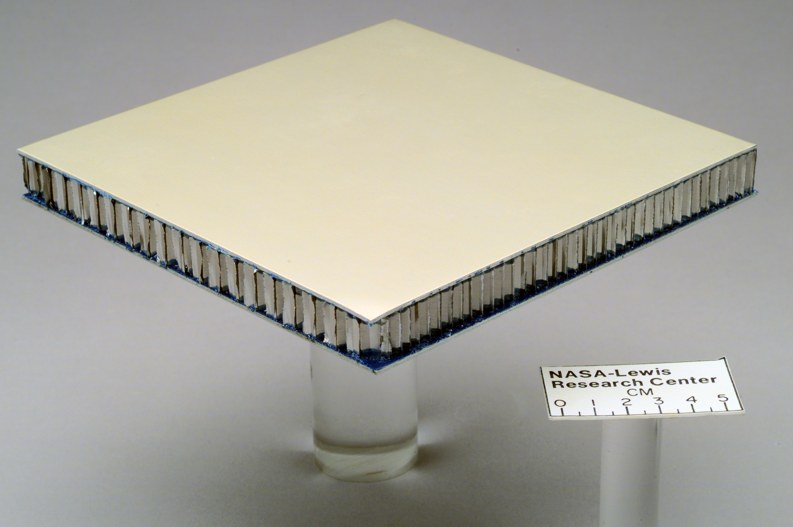 NASA Image of Glass Reinforced Aluminum (GLARE) Honeycomb composite sandwich structure.